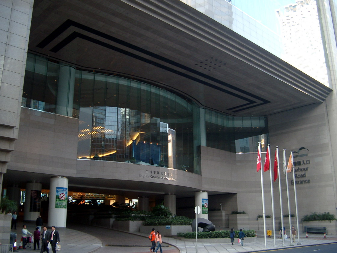 This photo was taken by User:Jepense on Sunday 27th November 2005.